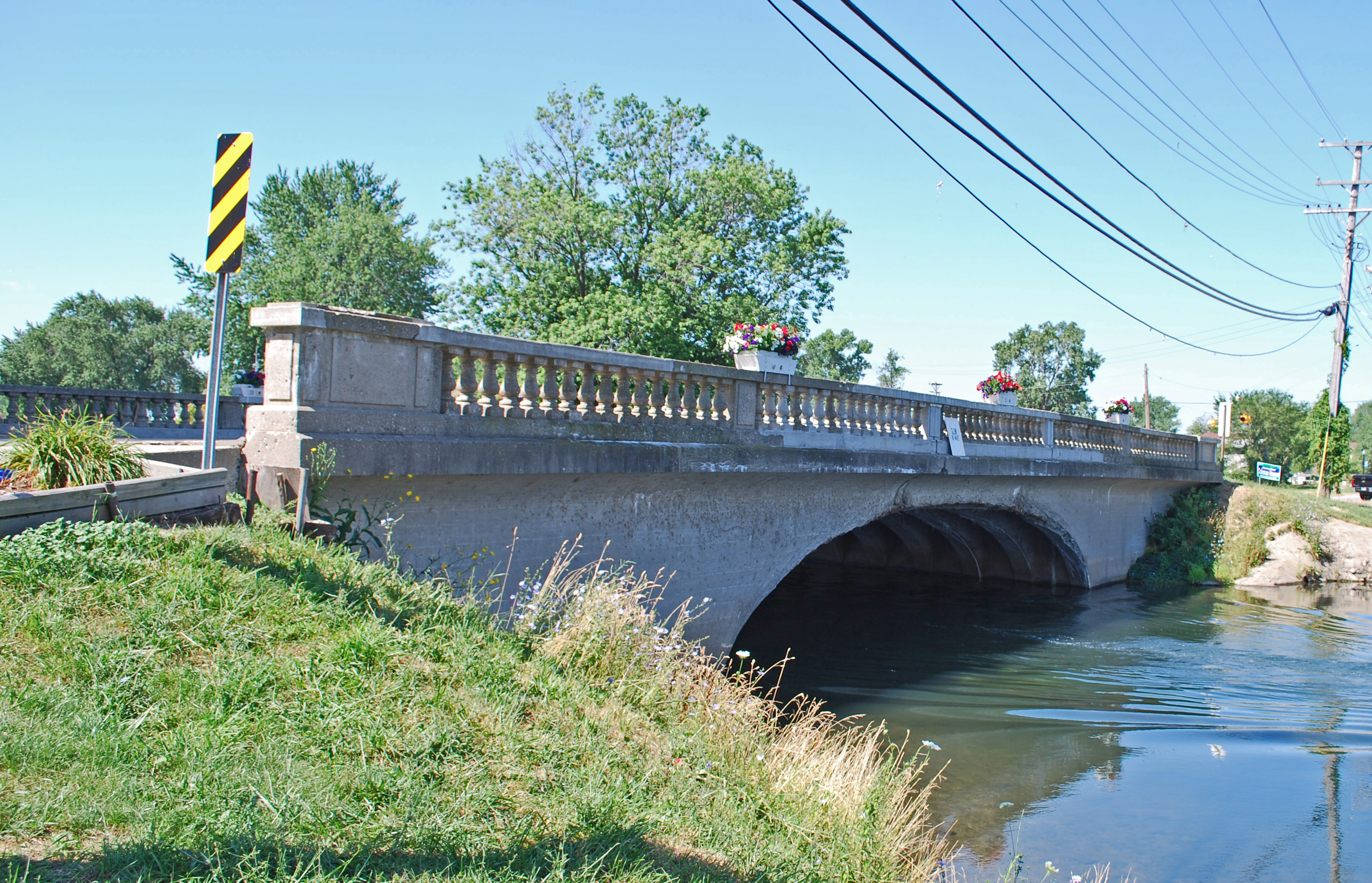 Gibraltar Rd-Waterwa yCanal Bridge, Gibraltar MI